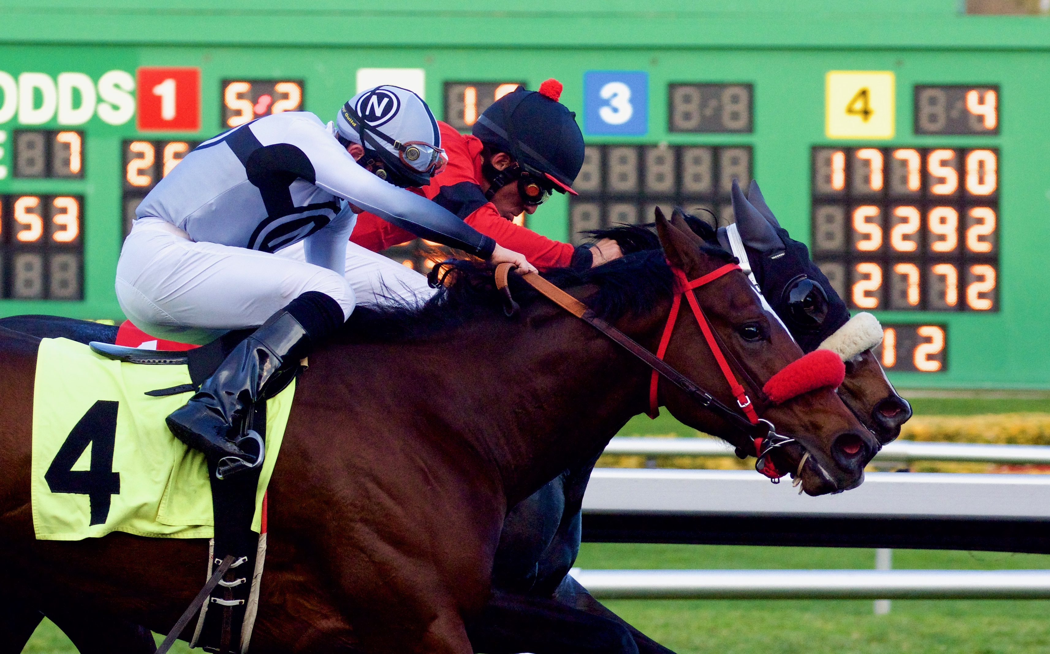 Horse racing at Golden Gate Fields, Albany, California. Race 7, 5.5 furlongs. Finish was a dead heat. Winner: #1 Blue Chip Betty Place: #4 Team Hollywood Show: #2 Office Chicks Also ran: Pulpitinthesky, Stormy Too, Silken Queen, Lucky Antares, Windward Storm, and Miss Gunny 26 December 2017